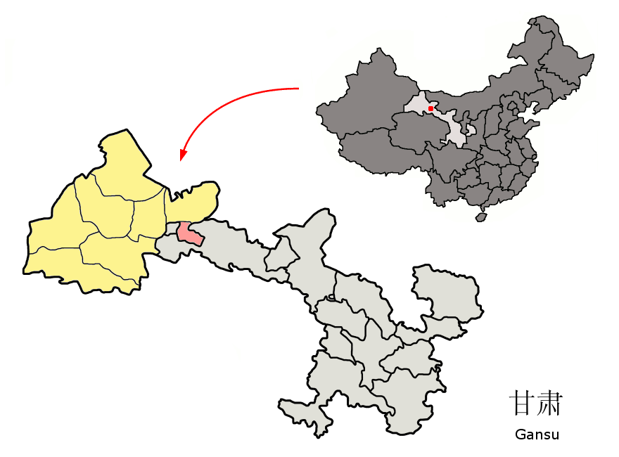 Location of Suzhou District (pink) within Jiuquan Prefecture (yellow) and Gansu province of China Map drawn in september 2007 using various sources, mainly : Gansu province administrative regions GIS data: 1:1M, County level, 1990 Gansu Counties map from Jiuquan Prefecture map from .cn